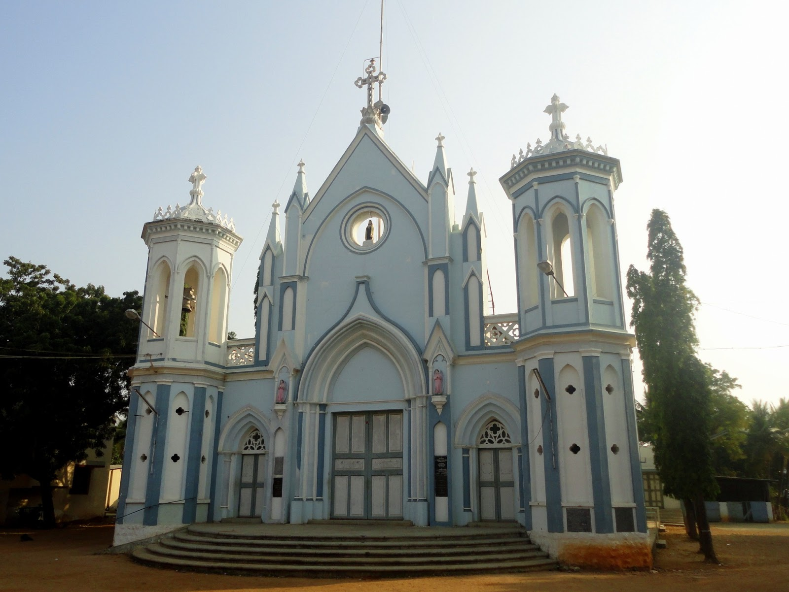 St Theresa church Crawford outskirt of Trichy city built in year 1934.